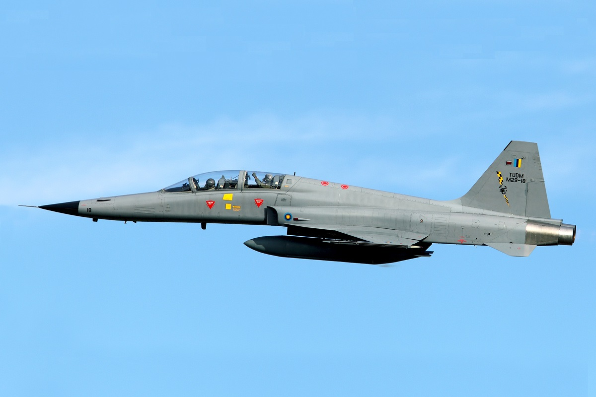 Flyby by F5 part of the opening of lima 2013